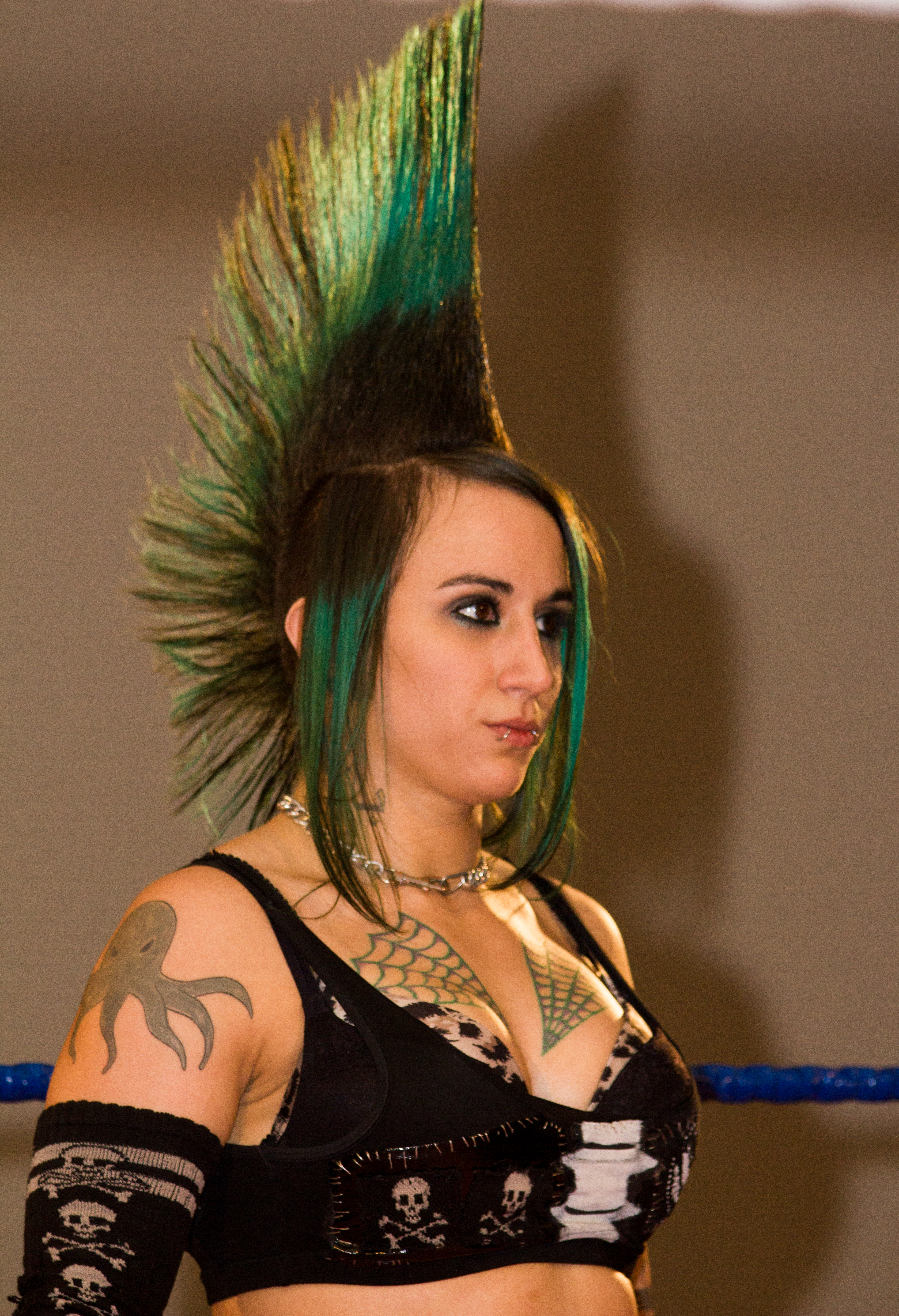 Christina von Eerie at a NCW Femme Fatales show in Montreal